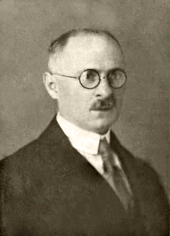 Picture of Arthur Silbergleit